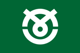 Flag of Hakui Ishikawa